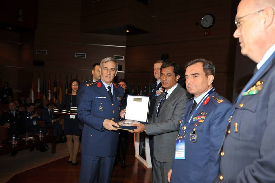 Air Commodore (Rtd) Kaiser Tufail receiving a memento from Commander of the Turkish Air Force General Akin Ozturk at the 'International Symposium on the History of Air Warfare' held at the Turkish Air War College, Istanbul.